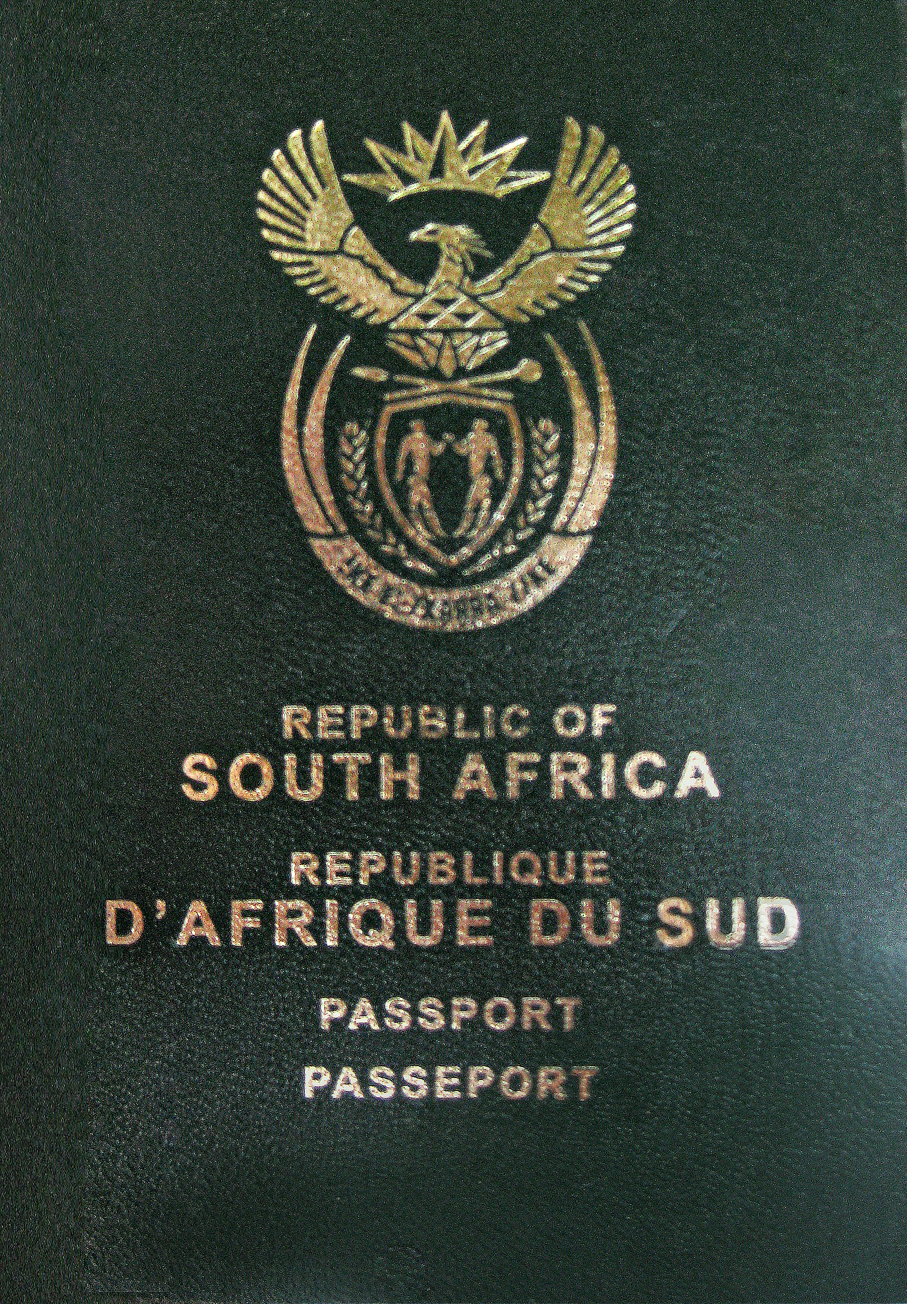 Front Cover of a Current Issue South African Passport